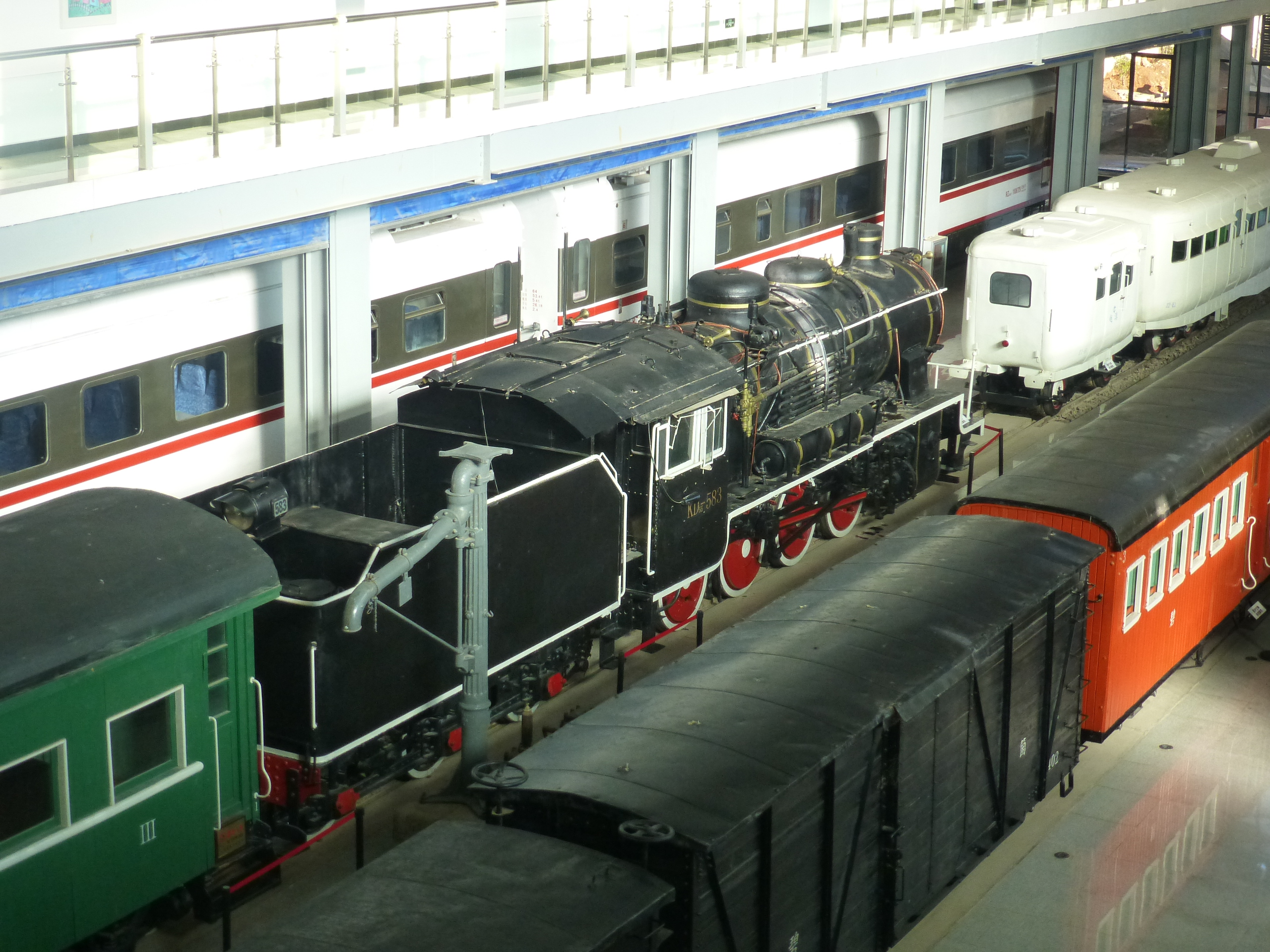 Rolling stock on display in the Yunnan Railway Museum (Kunming North Railway Station)